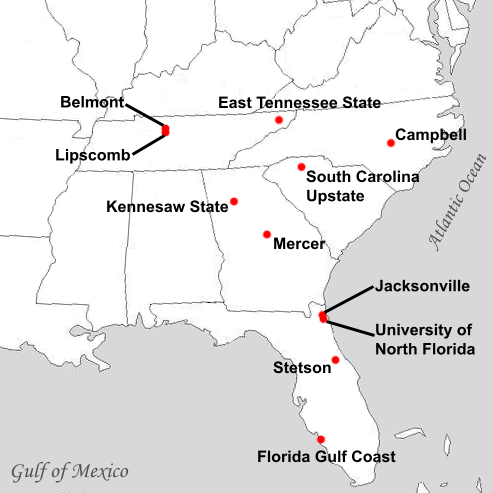 Locations of Atlantic Sun Conference full member institutions. Personal creation in Photoshop; All rights released to the public to do whatever they want with it.